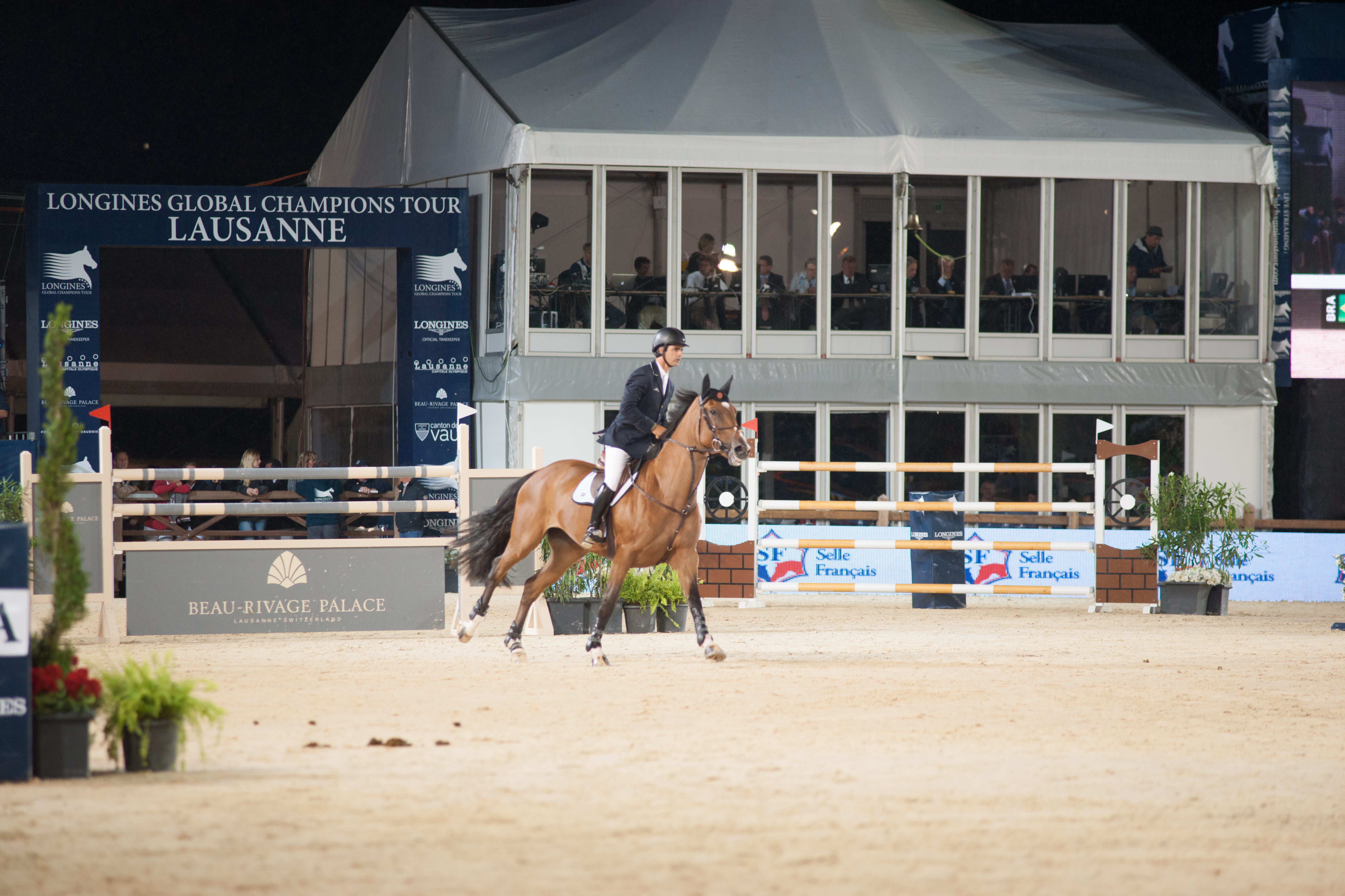 The making of this document was supported by Wikimedia CH. (Submit your project!) For all the files concerned, please see the category Supported by Wikimedia CH. 2013 Longines Global Champions Tour